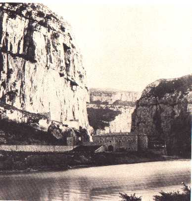 Fort of Chiusa in Italy